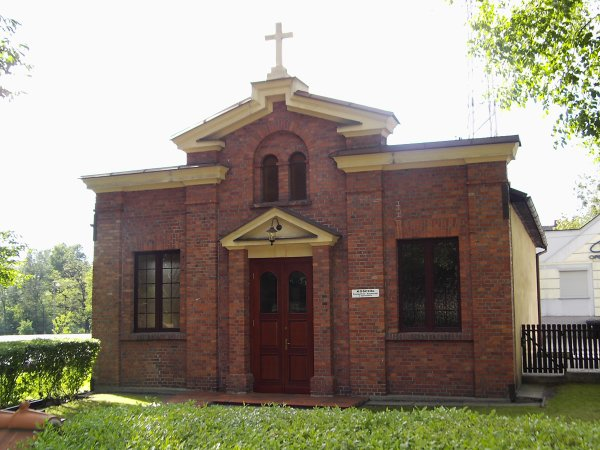 Lutheran Church in Czerwionka